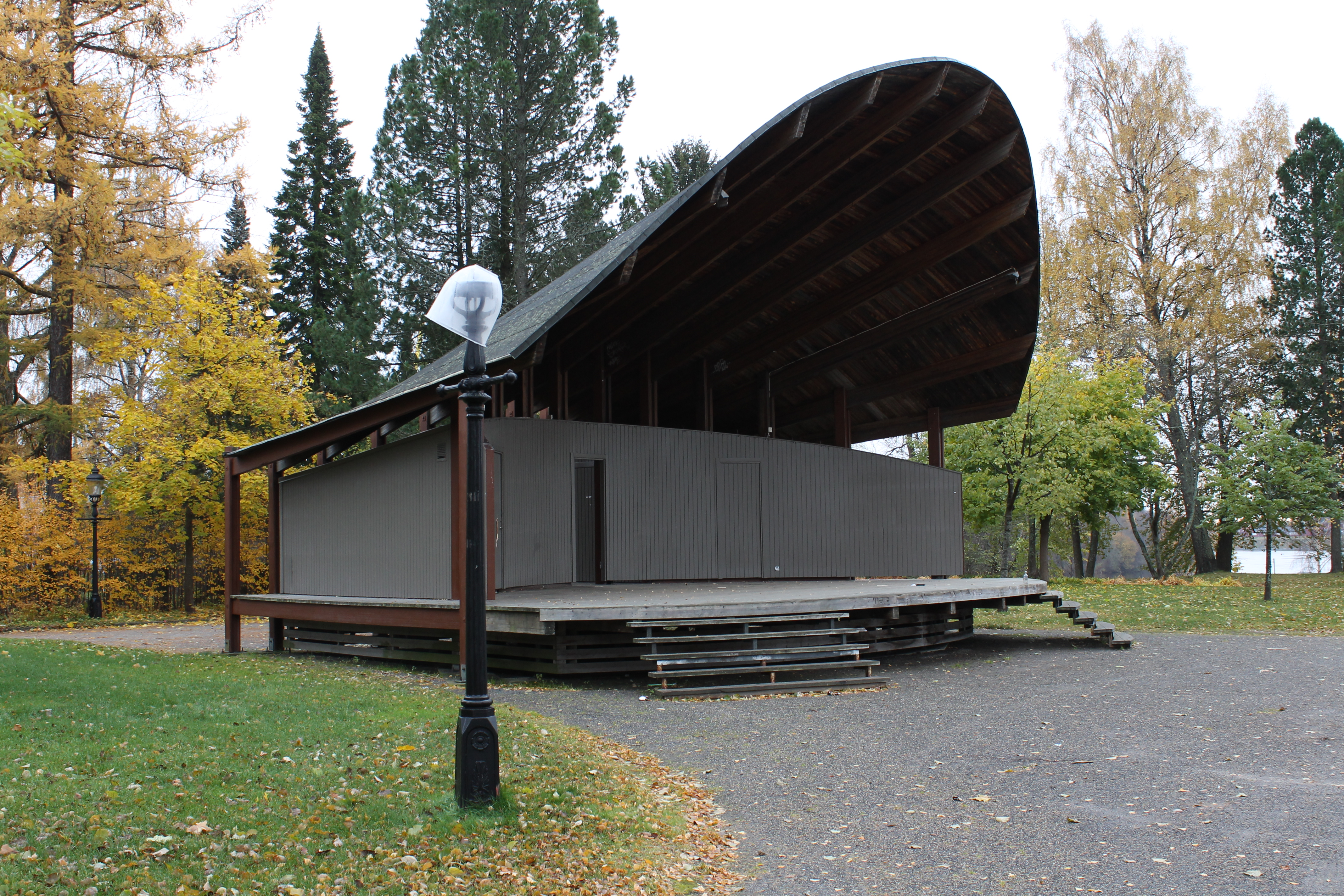 The stage in Döbelns park, Umeå, Sweden. The park has been there since 1920.